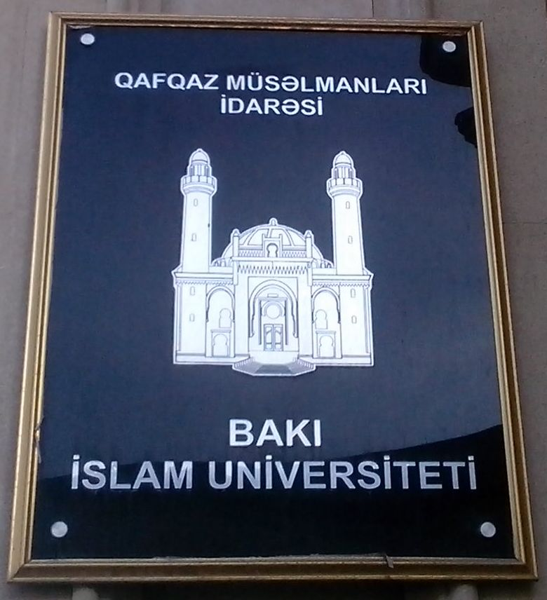 Baku Islamic University